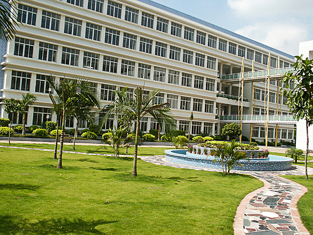 The school campus of the International School of Nanshan Shenzhen is situated at Nanguang Road, Nanshan District of Shenzhen, China